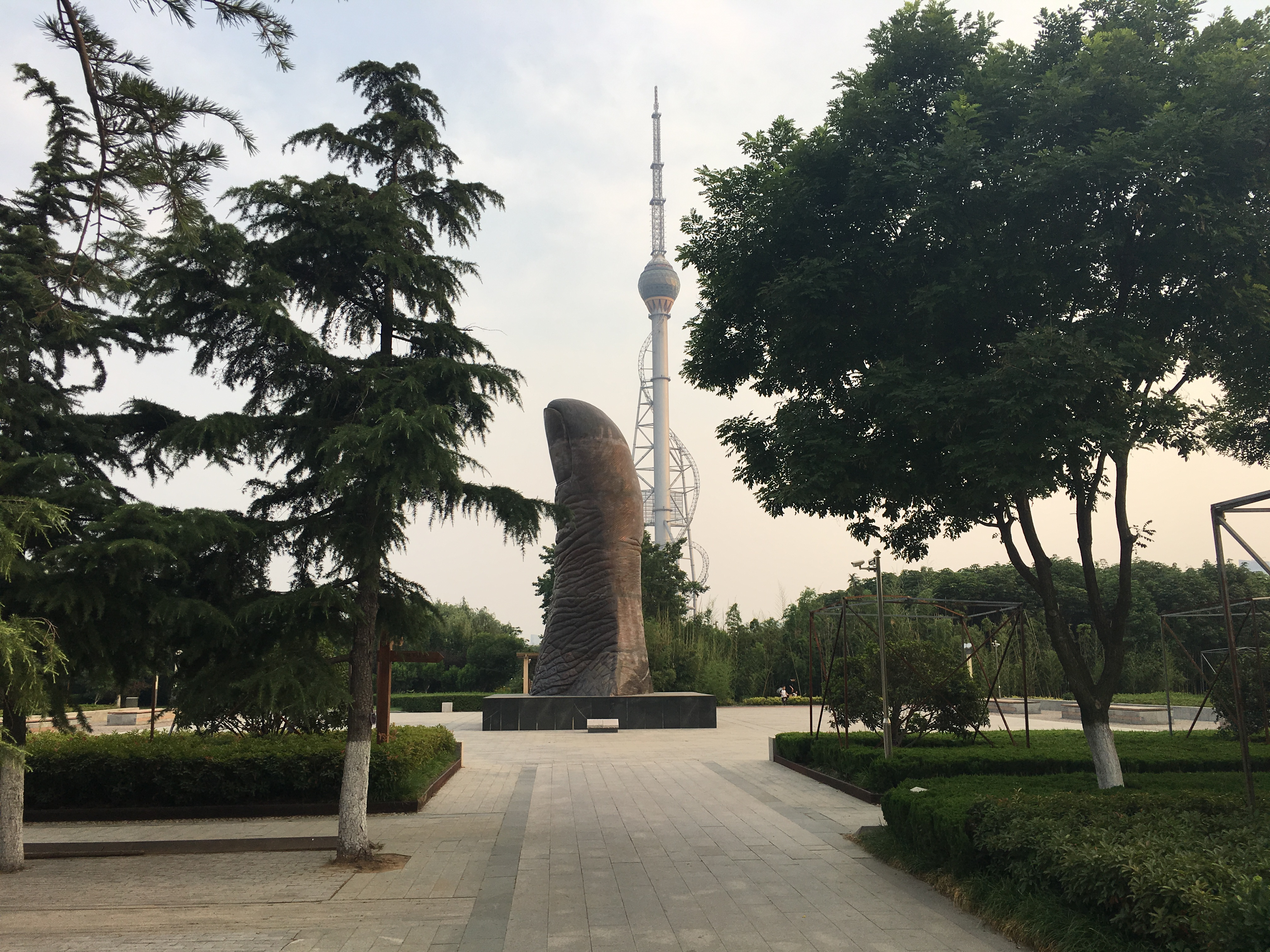 Linyi International Sculpture Park with the TV tower in the background.